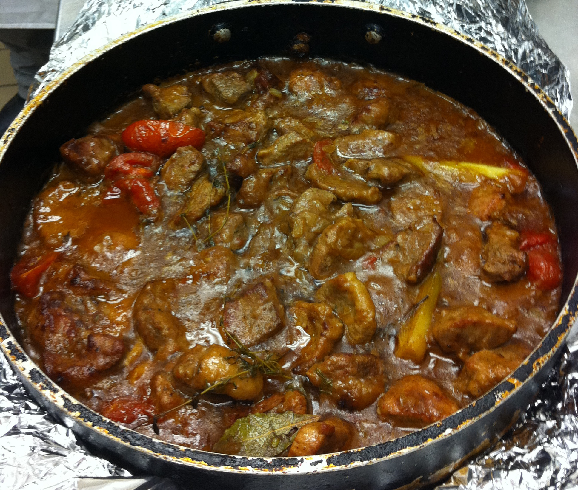 Navarin D'Agneau Printanier, a Lamb Stew with Spring Vegetables. This is the dish just as it has come out of the oven.